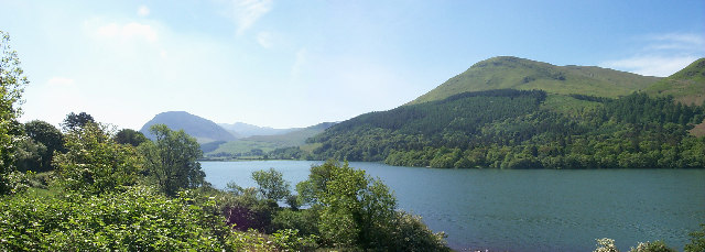 Loweswater, viewed from the north-eastern lakeside across to Holme Wood.